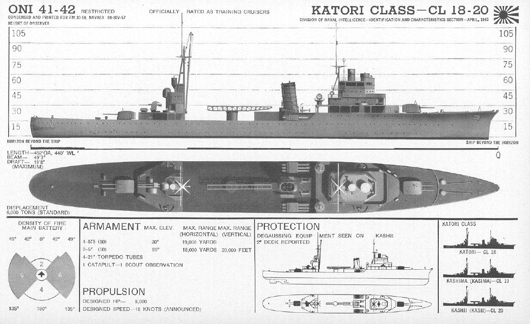 Cruiser Katori, A503 FM30-50 booklet for identification of ships, published by the Division of Naval Inteligence of the Navy Department of the United States.